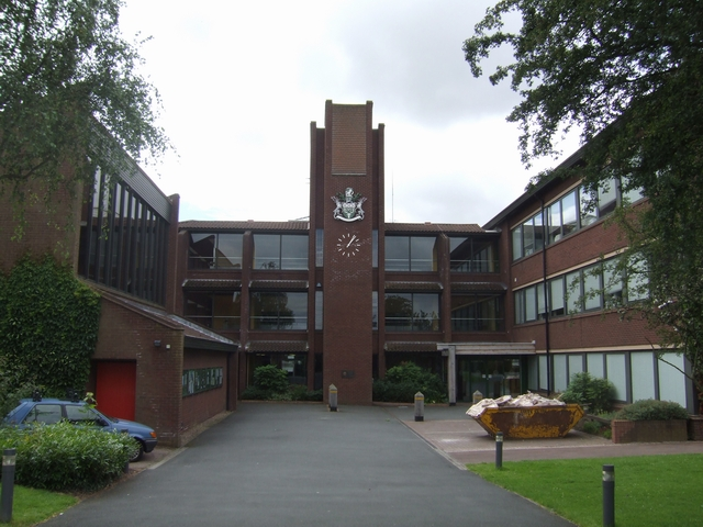 South Staffordshire Council Offices, near to Codsall, Staffordshire, Great Britain. 1970s offices housing the local district council.